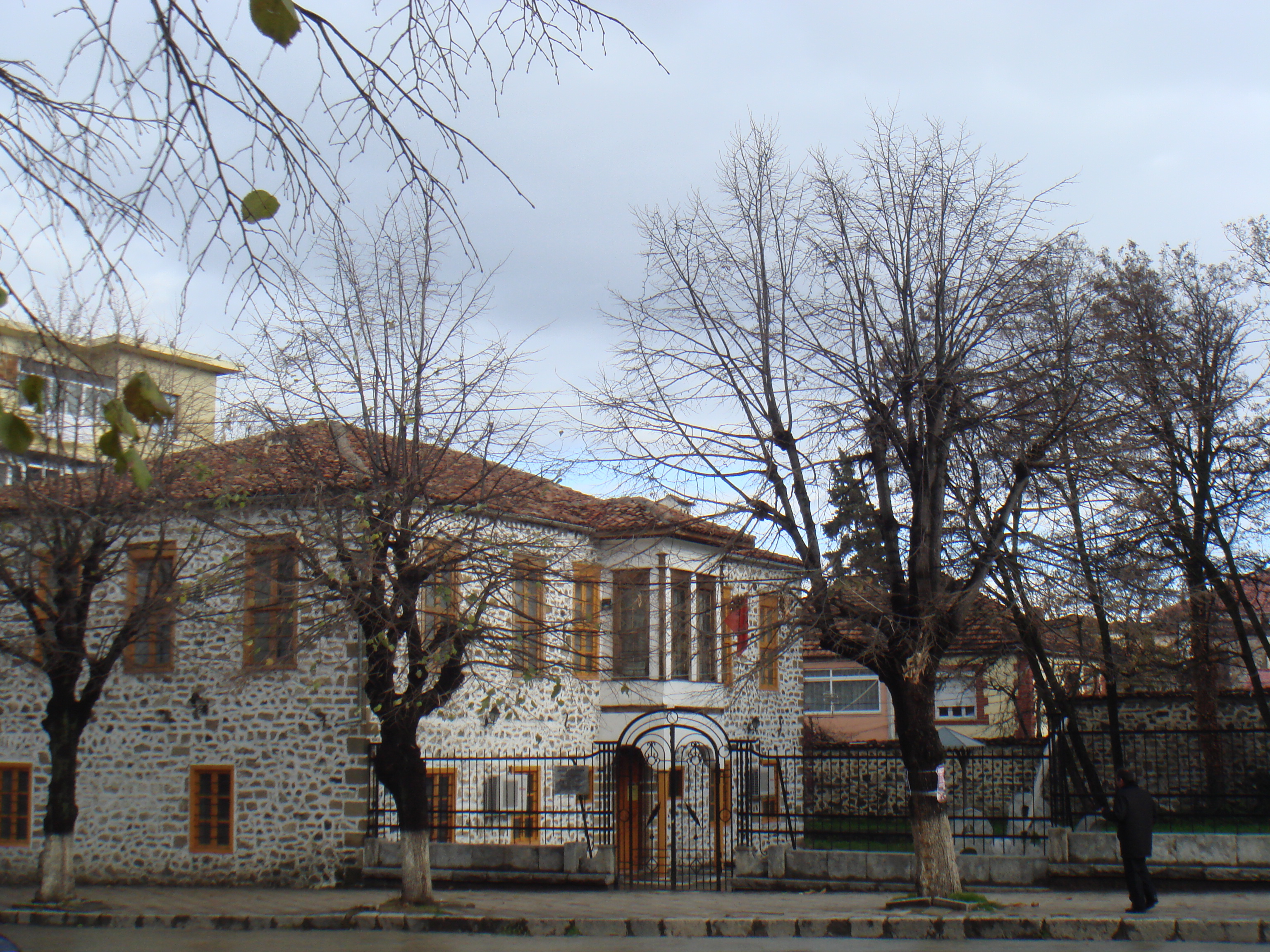 Building of the first Albanian school, opened in Korça in 1887